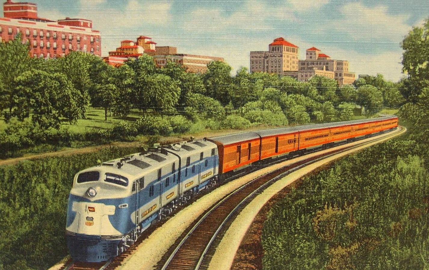 Postcard depiction of the Wabash train City of St. Louis. The train was built by American Car Foundry.